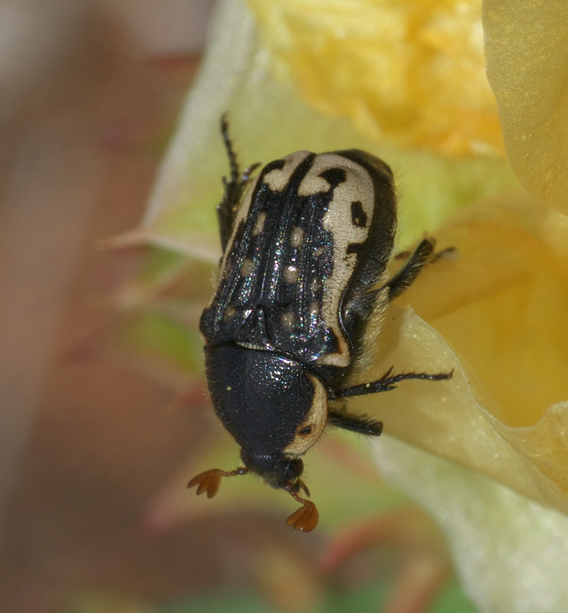 Euphoria kernii, Kern's Flower Scarab, ID Confidence: 87